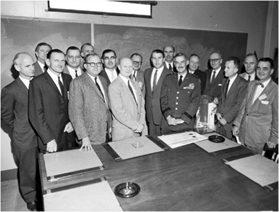 This photograph of Dr. von Braun, shown here to the left of General Bruce Medaris, was taken in the fall of 1959, immediately prior to Medaris' retirement from the Army. At the time, von Braun and his associates worked for the Army Ballistics Missile Agency in Huntsville, Alabama. Those in the photograph have been identified as Ernst Stuhlinger, Frederick von Saurma, Fritz Mueller, Hermarn Weidner, E.W. Neubert (partially hidden), W.A. Mrazek, Karl Heimburg, Arthur Rudolph, Otto Hoberg, von Braun, Oswald Lange, Medaris, Helmut Hoelzer, Hans Maus, E.D. Geissler, Hans Hueter, and George Constan.